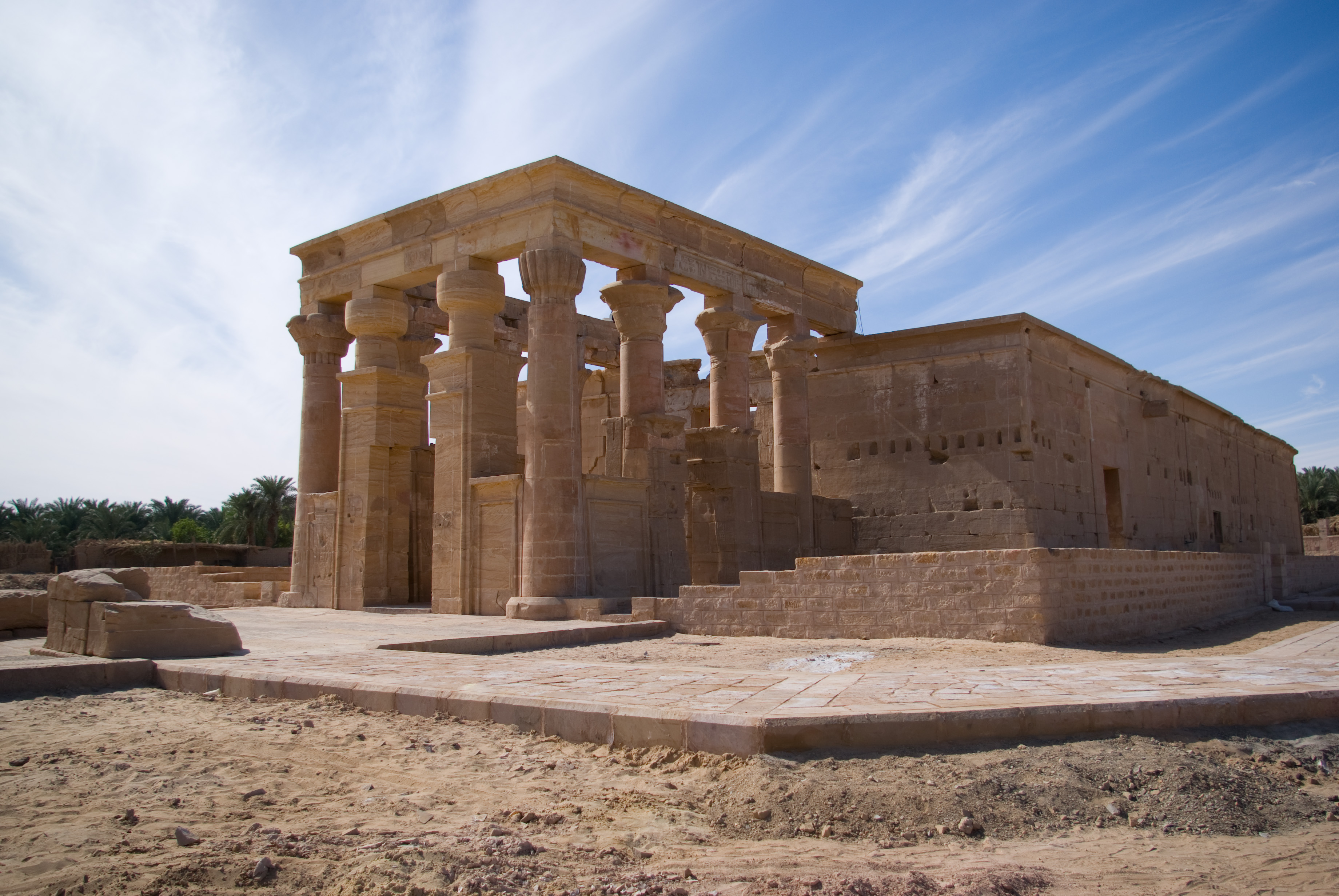 The temple of Hibis in Kharga oasis, Egypt